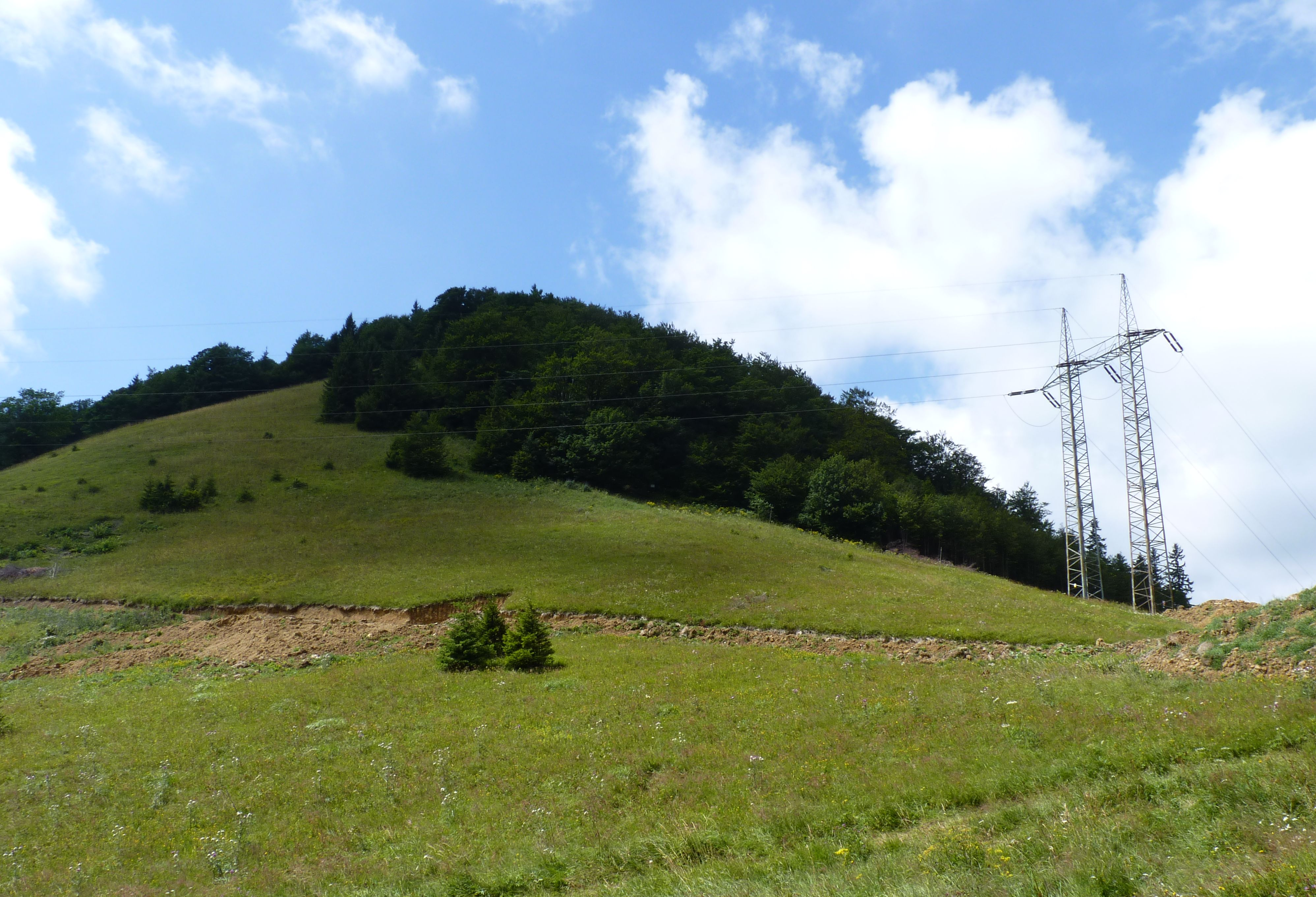 Hiadeľské sedlo. Low Tatras, Slovakia